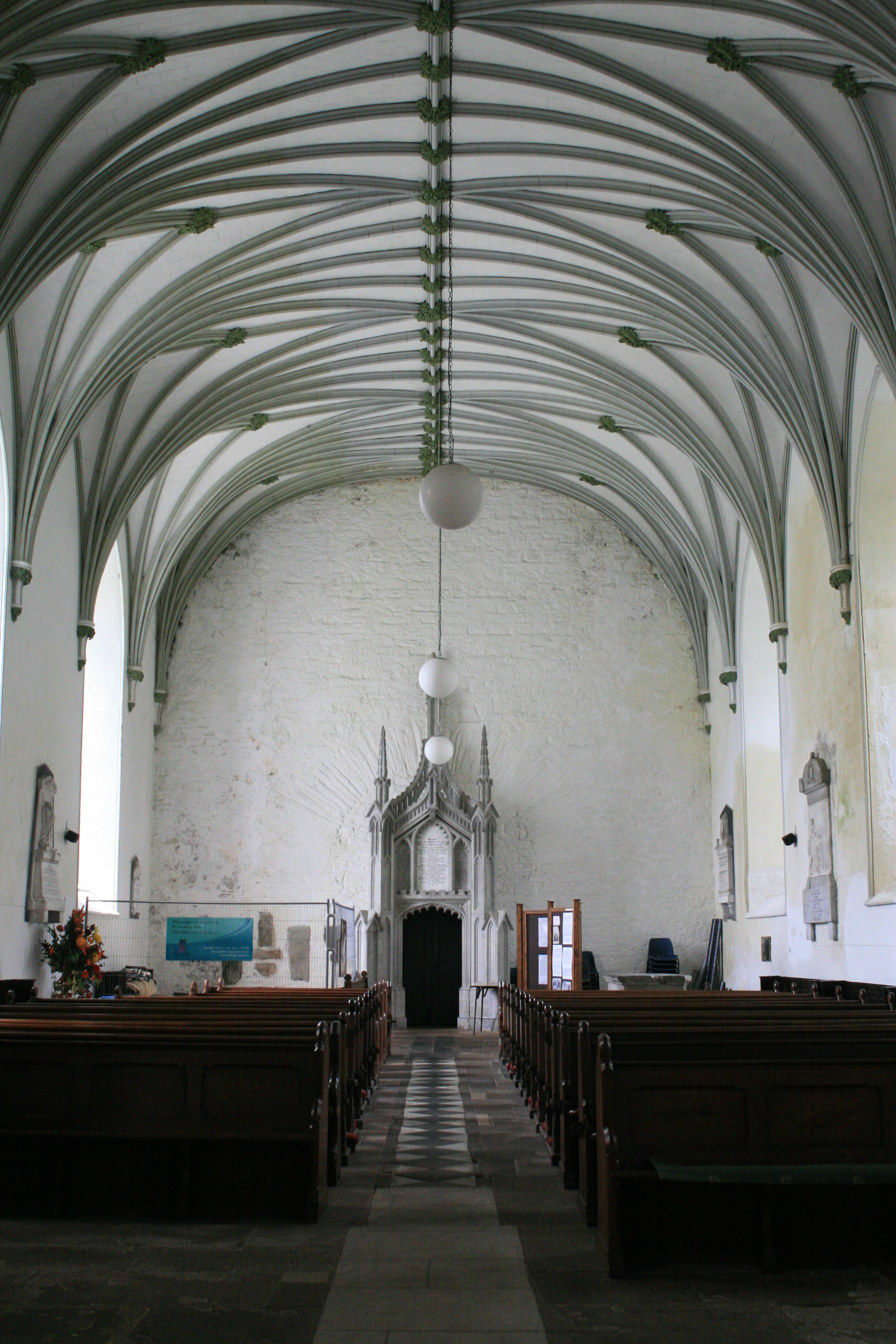 Lismore, County Waterford, Ireland Nave of St. Carthage's Cathedral